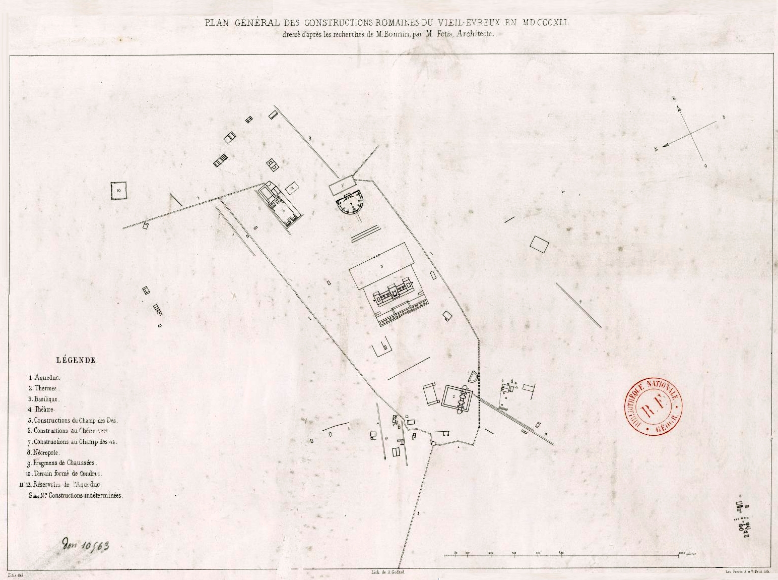 Plan of the ruins of Gisacum in Le Viel-Évreux (Eure, France) according to the archaeological excavations of Theodose Bonnin.